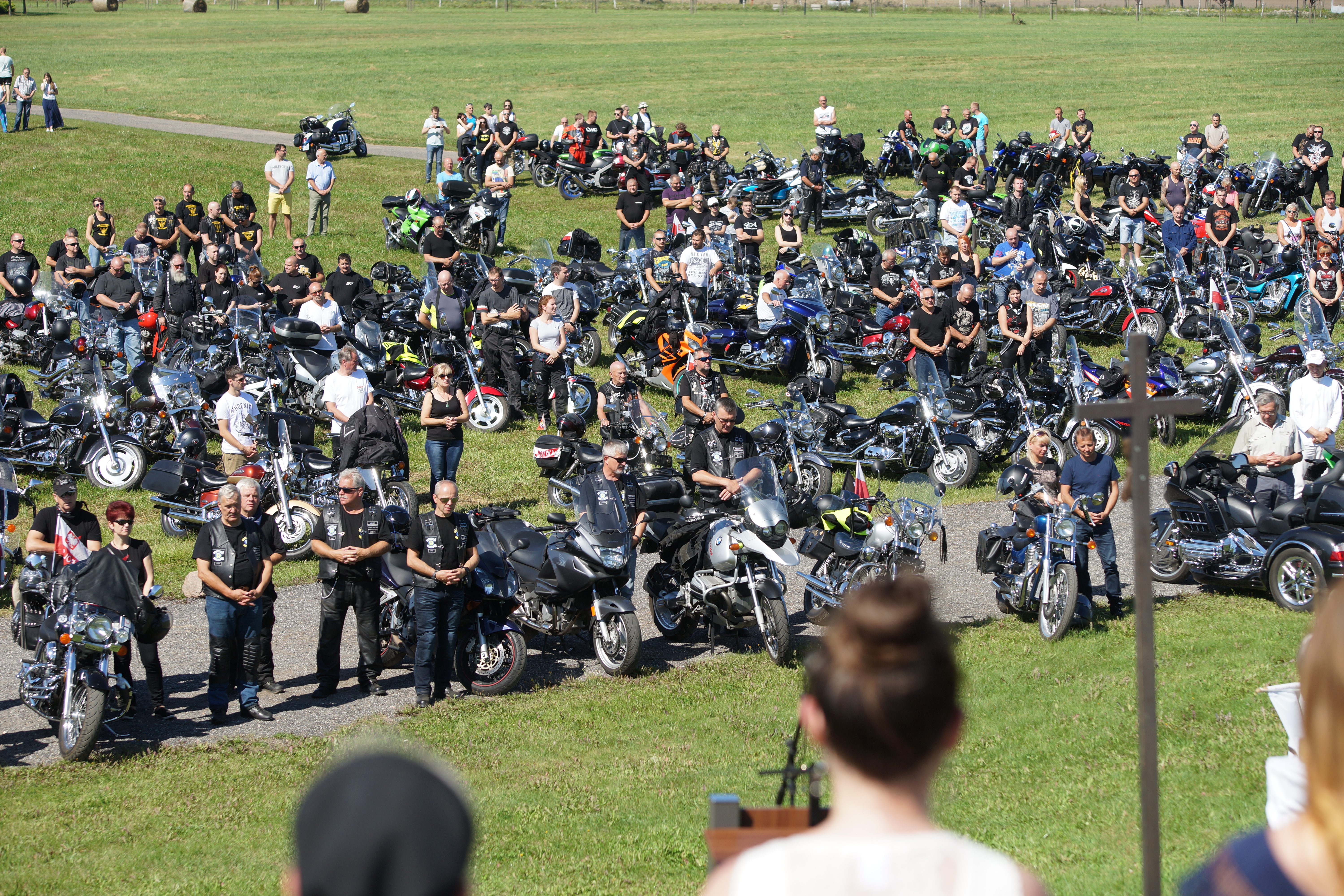 Motorcyclists during Motorcyclist's Meeting LEDNICA 2000